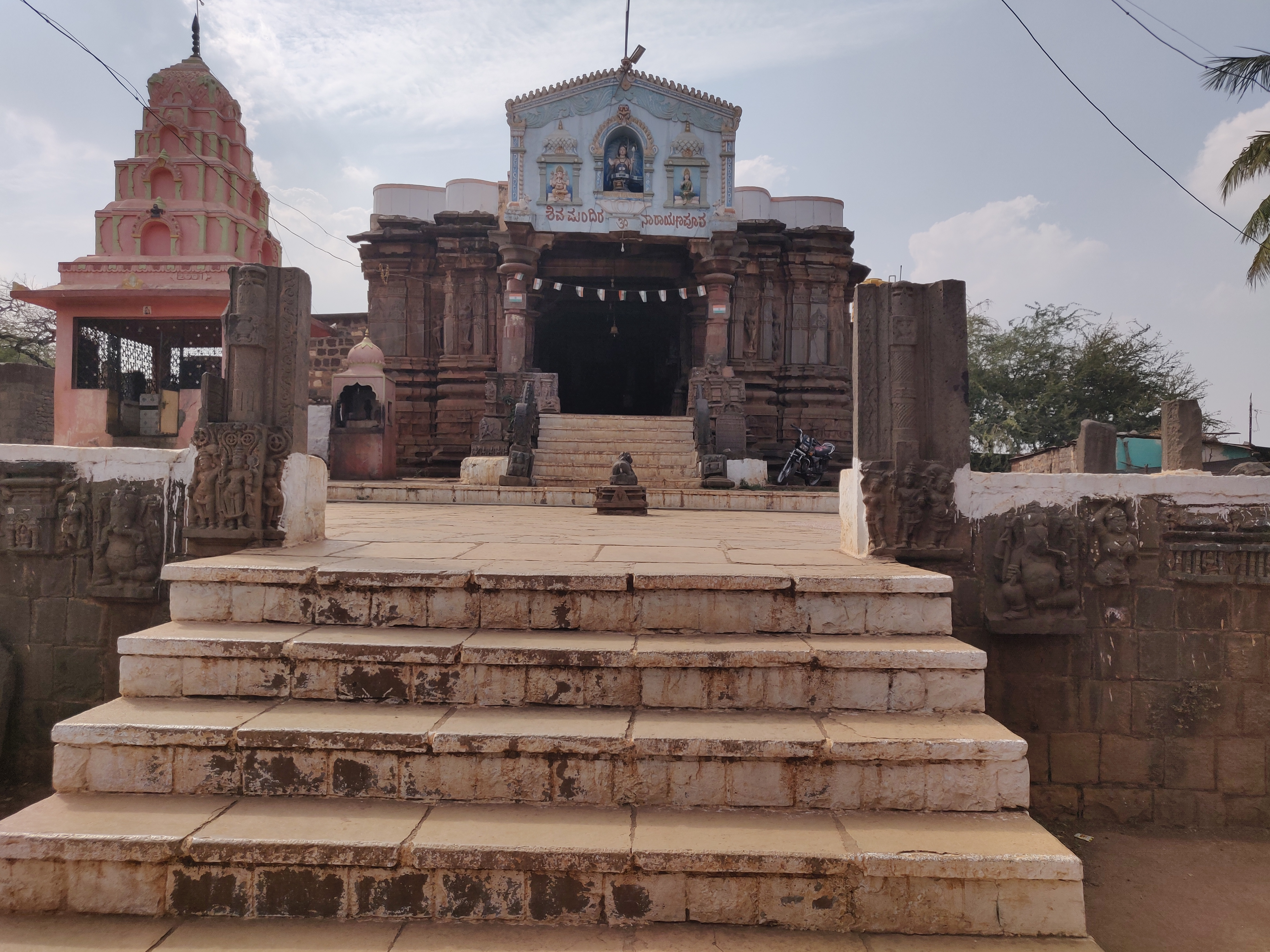 Pictures clicked in Shiva temple, Narayanapur, Bidar district, Karnataka, India.